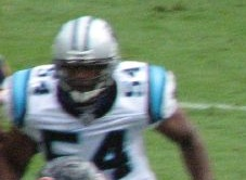 Quinton Feal makes a tackle for Carolina Panthers, against Chicago Bears.